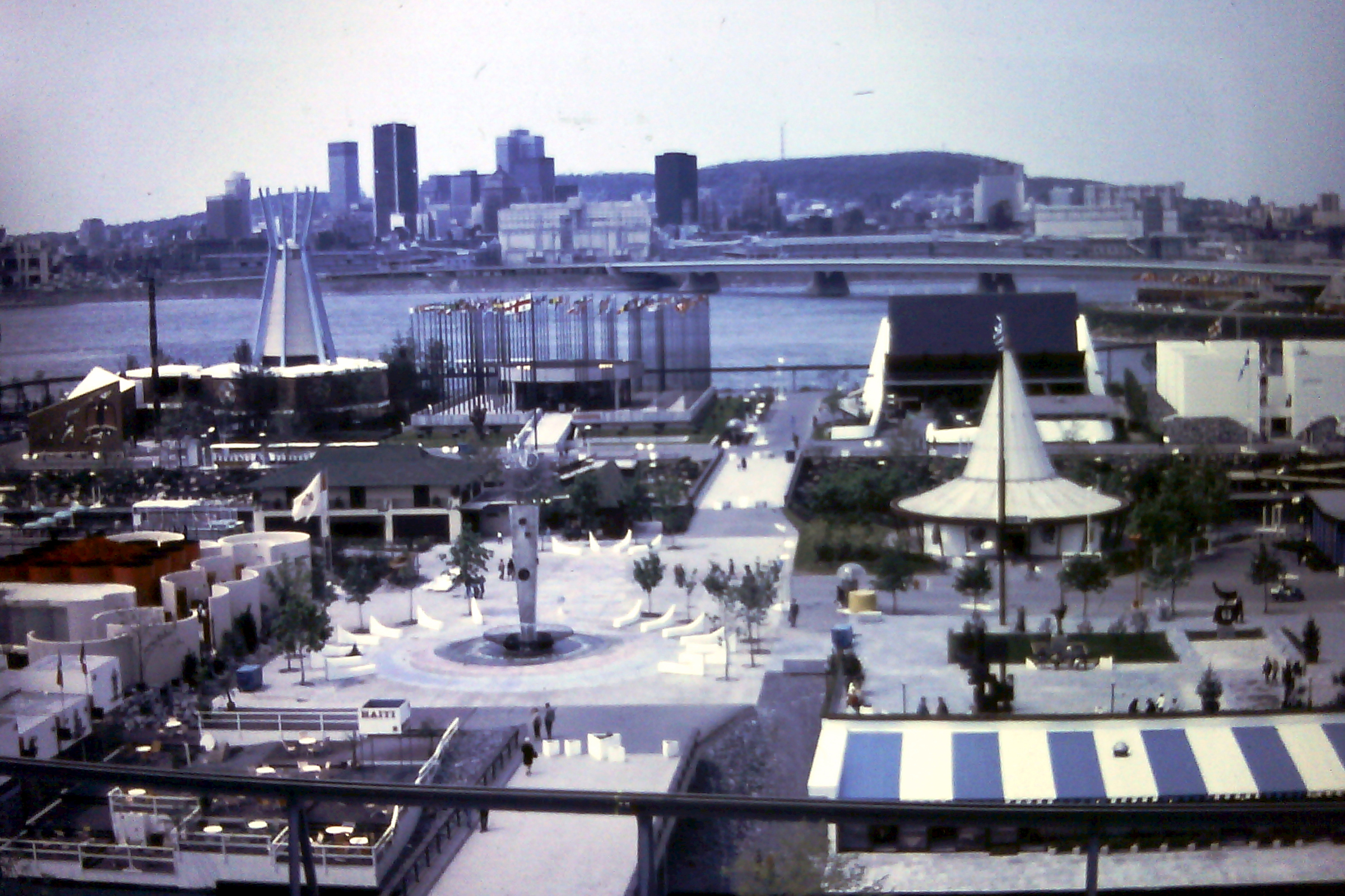 Expo 67,Notre-Dame island. Haïti pavilion, Monaco on the left, the stylized tipi of the Indians of Canada pavilion, UN with its numerous flags, in the center Engineers Square and the fountain-cum-sculpture Container Universe with its Space-age Tower from Gerald Gladstone, on the right the conic pavilion of Mauritius. This picture was taken by my father. I scanned the slide.